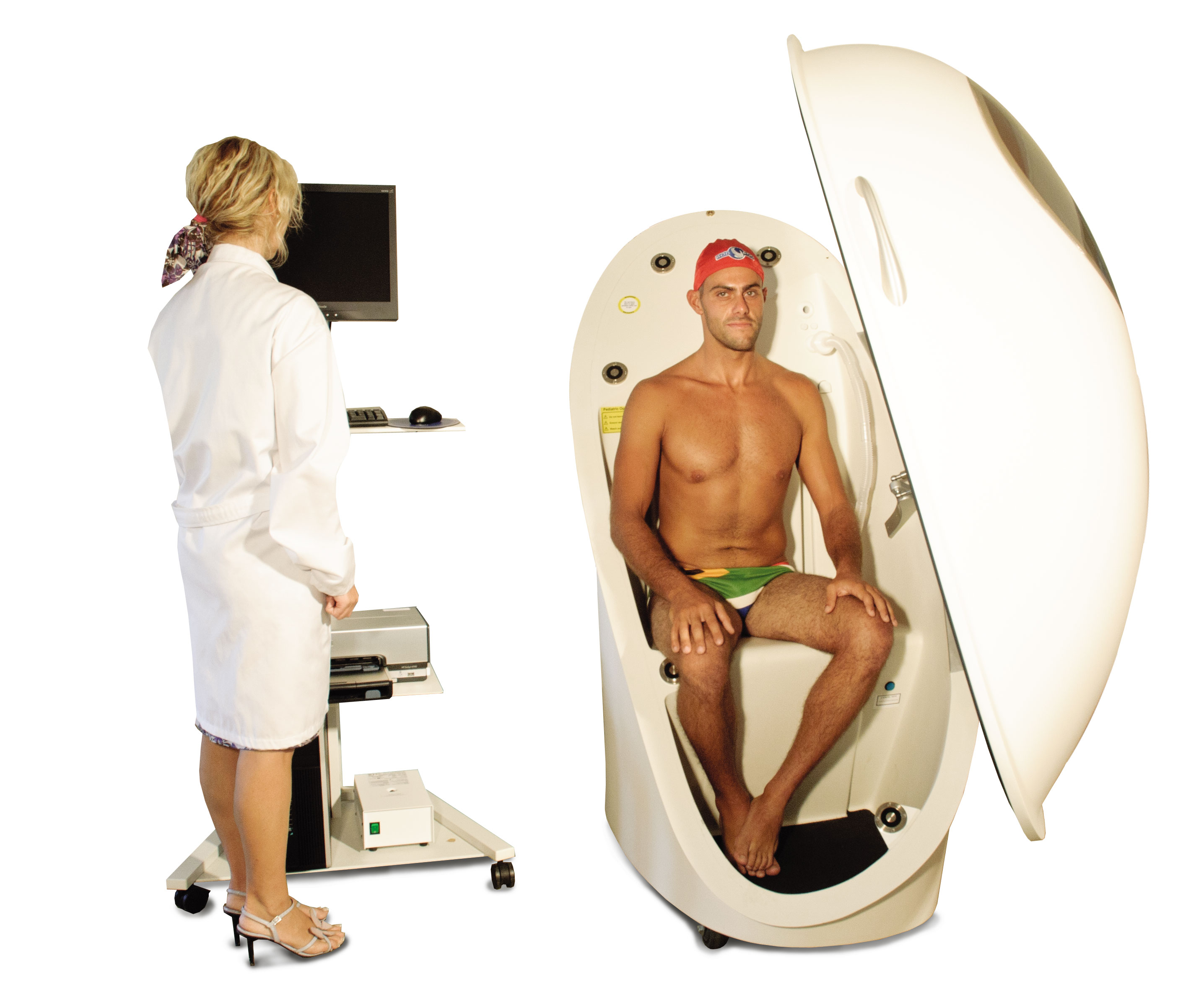 Body composition measurement in adults with air displacement plethysmography technique by COSMED (